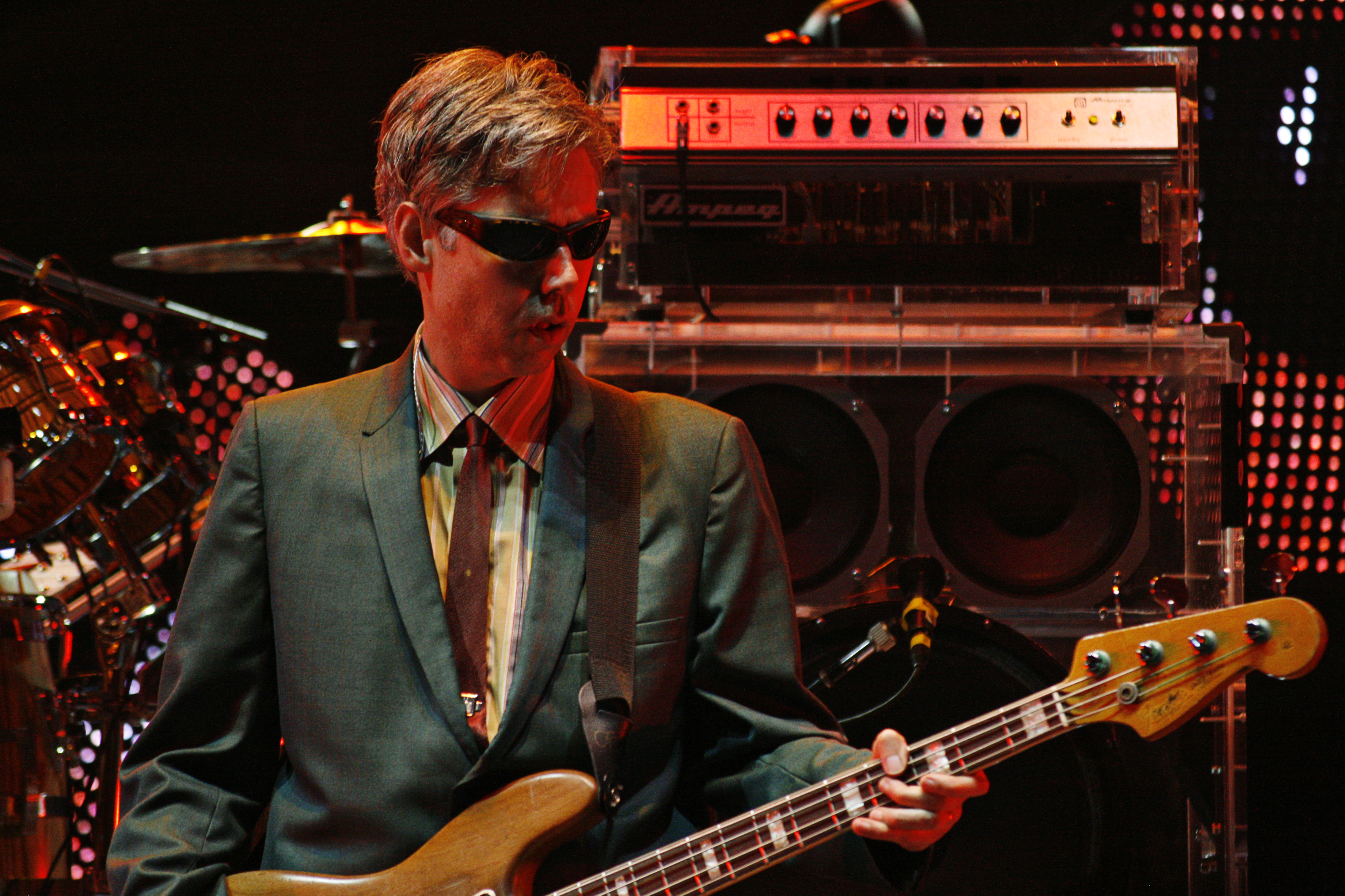 Adam Yauch, Bestie Boys at Brixton Academy - 05/09/07